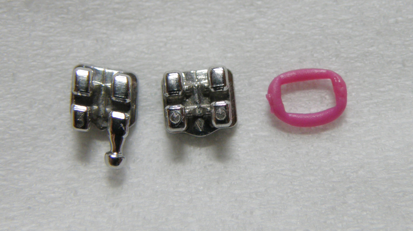 Different parts of a dental braces.